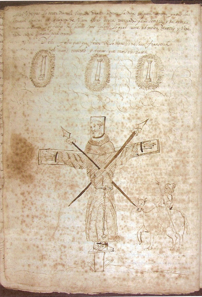 Drawing by Miquel Parets in his chronicle for remembering the martyrdom of 26 Catholic monks (23 Franciscans and 3 Jesuits) crucified in Nagasaki (Japan) on 5th February 1597 during the reign of Hideyoshi Toiotomi. Between 5th and 7th February 1628 Barcelona ​​commemorated the martyrdom of the 26 religious: Parets described the sentence that was applied as it was explained to the people: "And all they together were crucified with hands, feet and necks tied with rings, and were stuck with two spears each one, as indicated in this drawing. And during the martyred three columns of fire appeared in the air." Parets, Miquel; Margalef, M. Rosa; Amelang, James S.; Simon, Antoni; Torres, Xavier (2011) Crònica. Llibre I/1, Barcelona: Editorial Barcino, ISBN 978-84-7226-769-5, page 219-221.